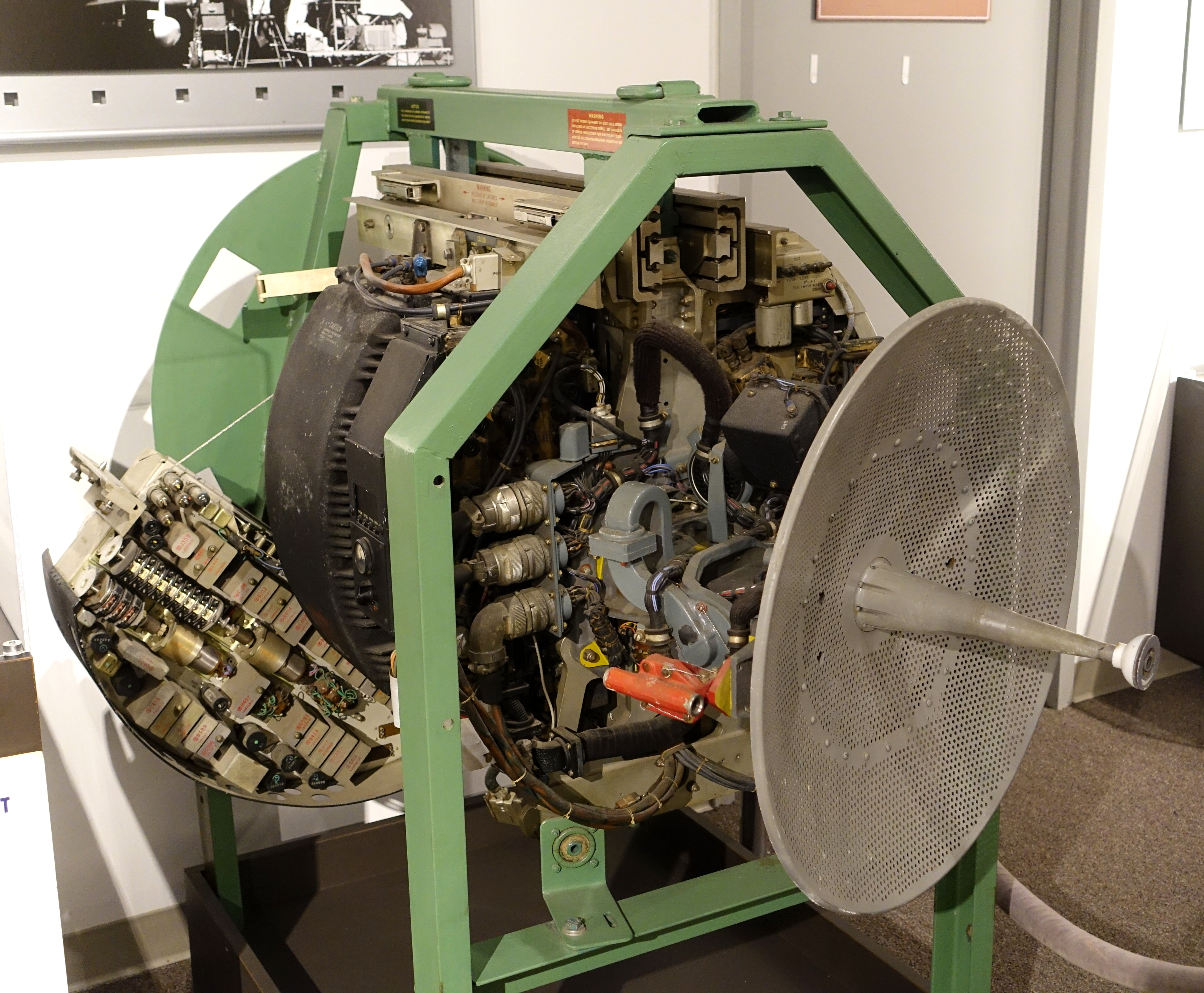 Exhibit in the National Electronics Museum, 1745 West Nursery Road, Linthicum, Maryland, USA. All items in this museum are unclassified. The museum permitted photography without restriction.